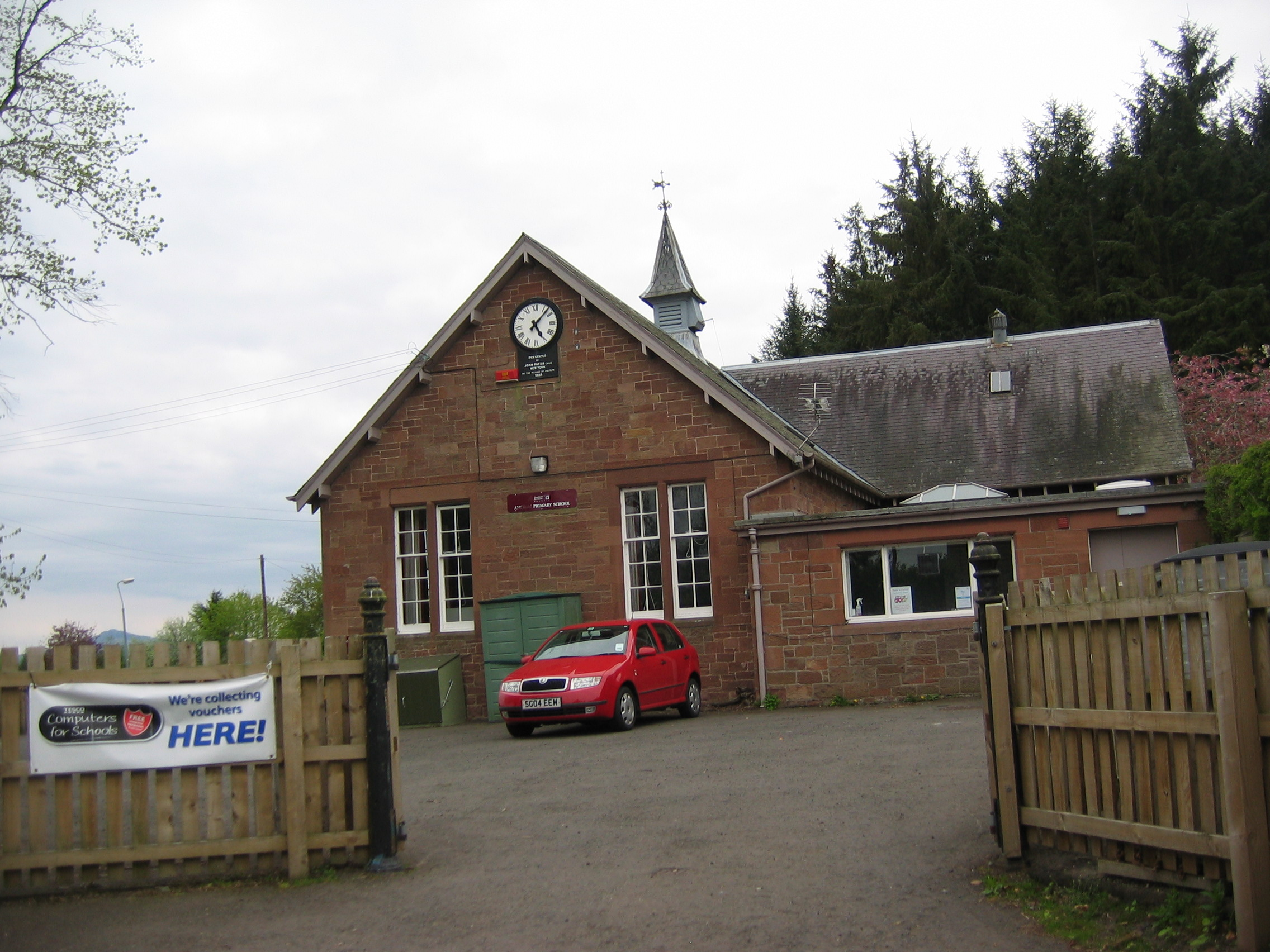 Ancrum Primary School, Scottish Borders